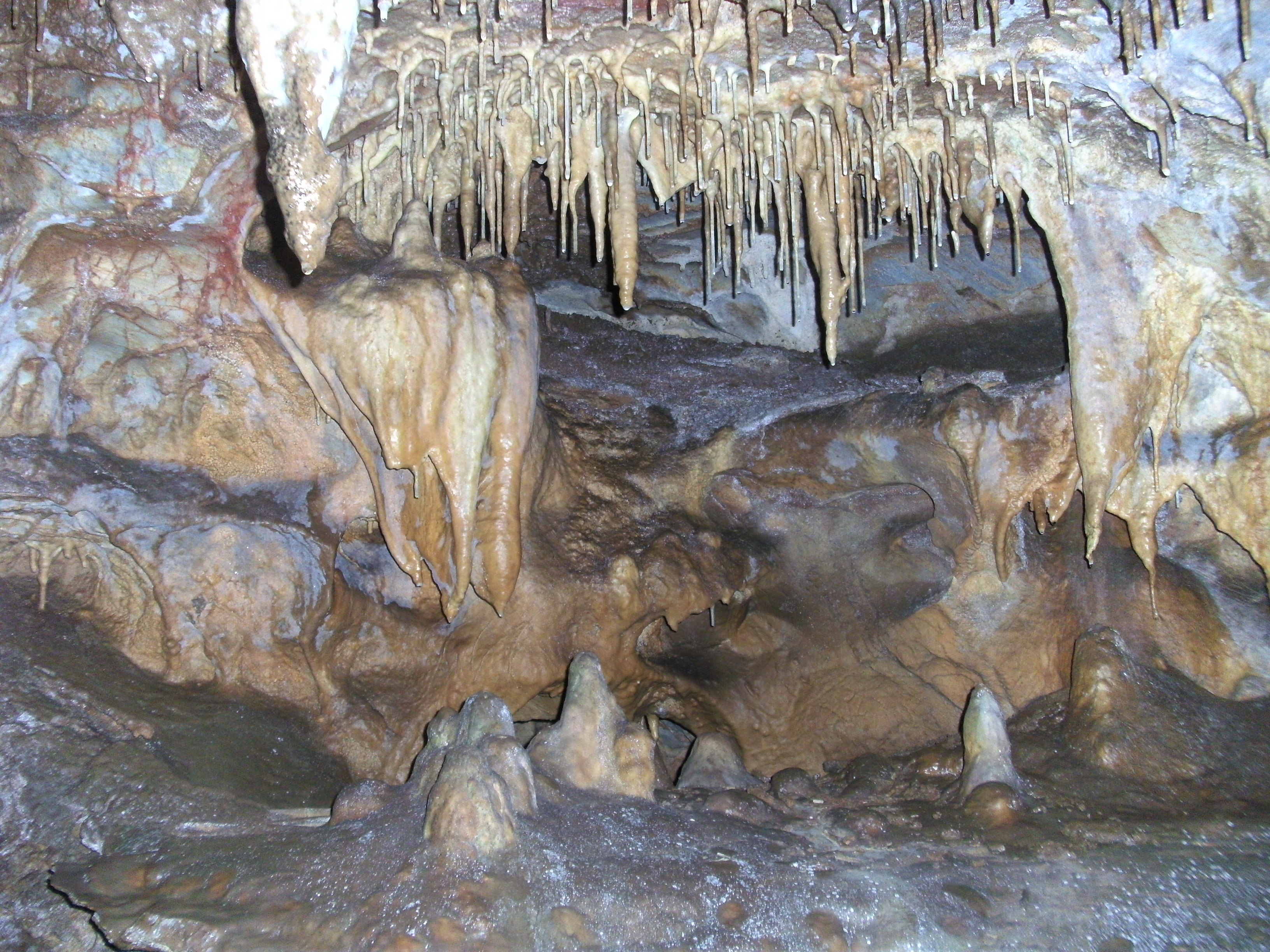 Marble Cave which is located in a village of Gadime municipality of Lipjan,about 20km south of capital Prishtina.